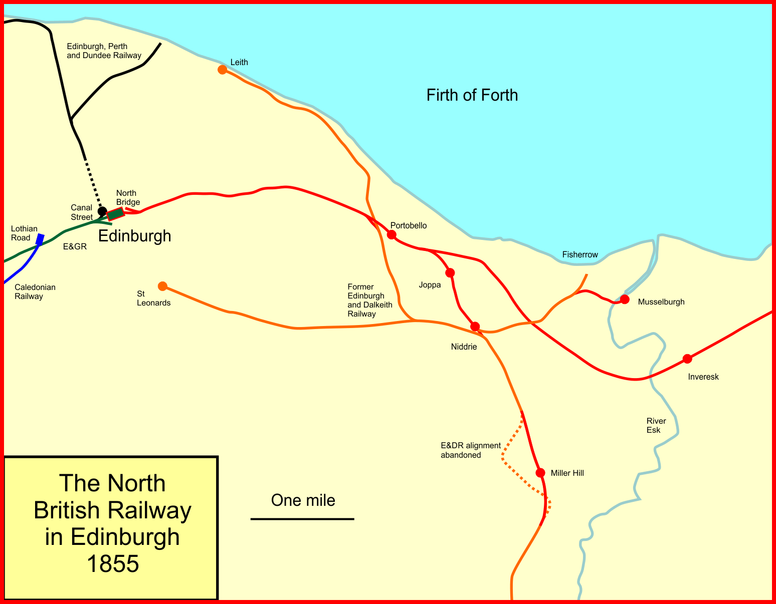 The North British Railway and former Edinburgh & Dalkeith lines in Edinburgh, Scotland in 1855